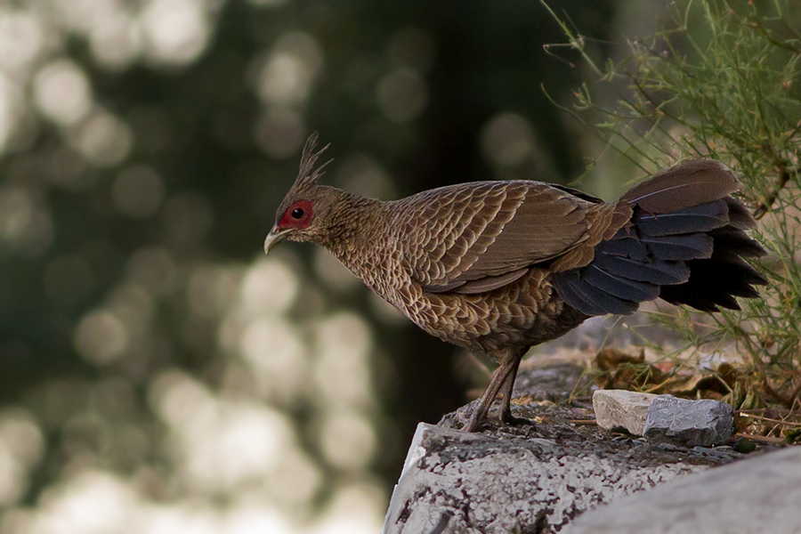 The specie Kalij Pheasant had been photographed at Lingadhar, near Khurpatal of Uttarakhand, India on 12.02.2014 during the bird photography trip of GoingWild.